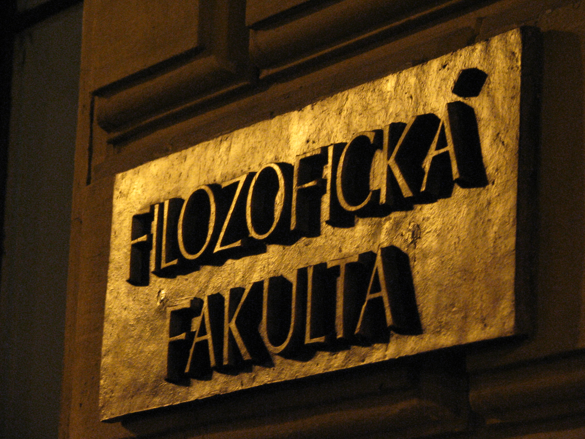 Faculty of Arts, Hradec Králové University